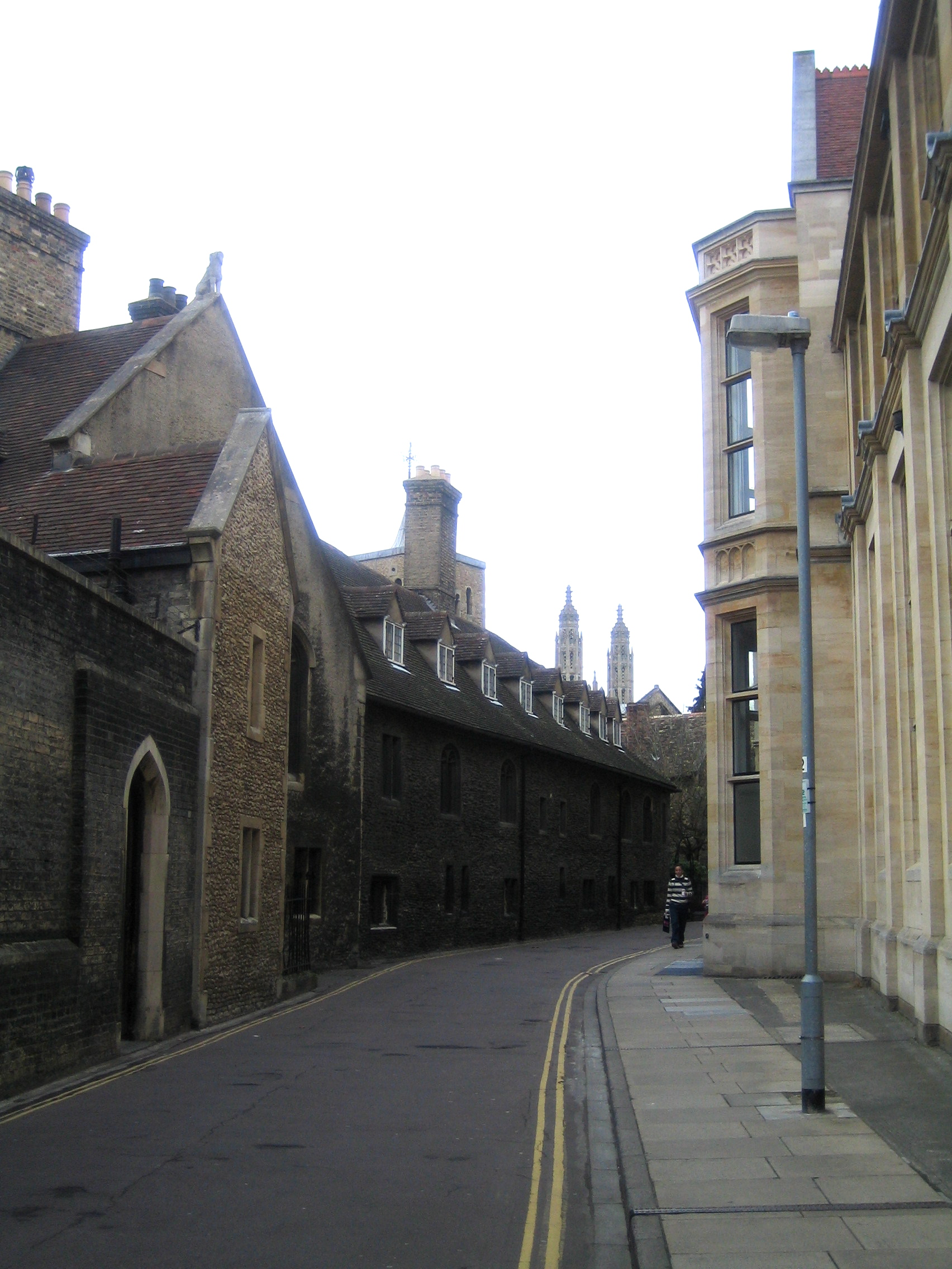 Photograph of Free School Lane, Cambridge, UK - the old Cavendish Laboratory on the New Museums Site is on the right; the back of Corpus Christi College on the left